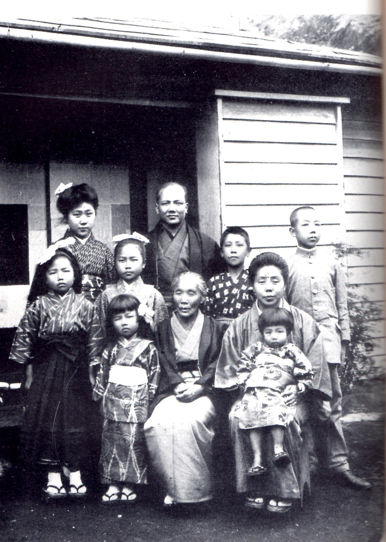 A assemble portrait of Juji Nakada with his mother